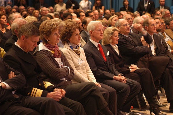 Audience at World Economic Forum annual meeting.